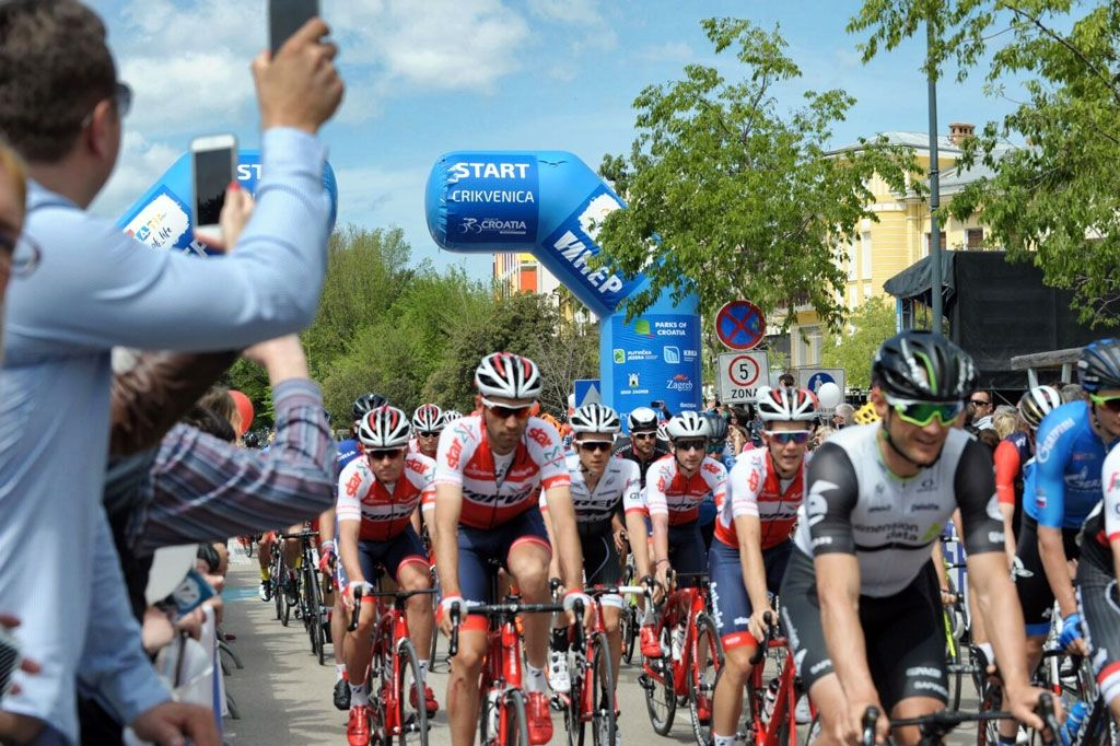 Tour of Croatia na startu u Crikvenici